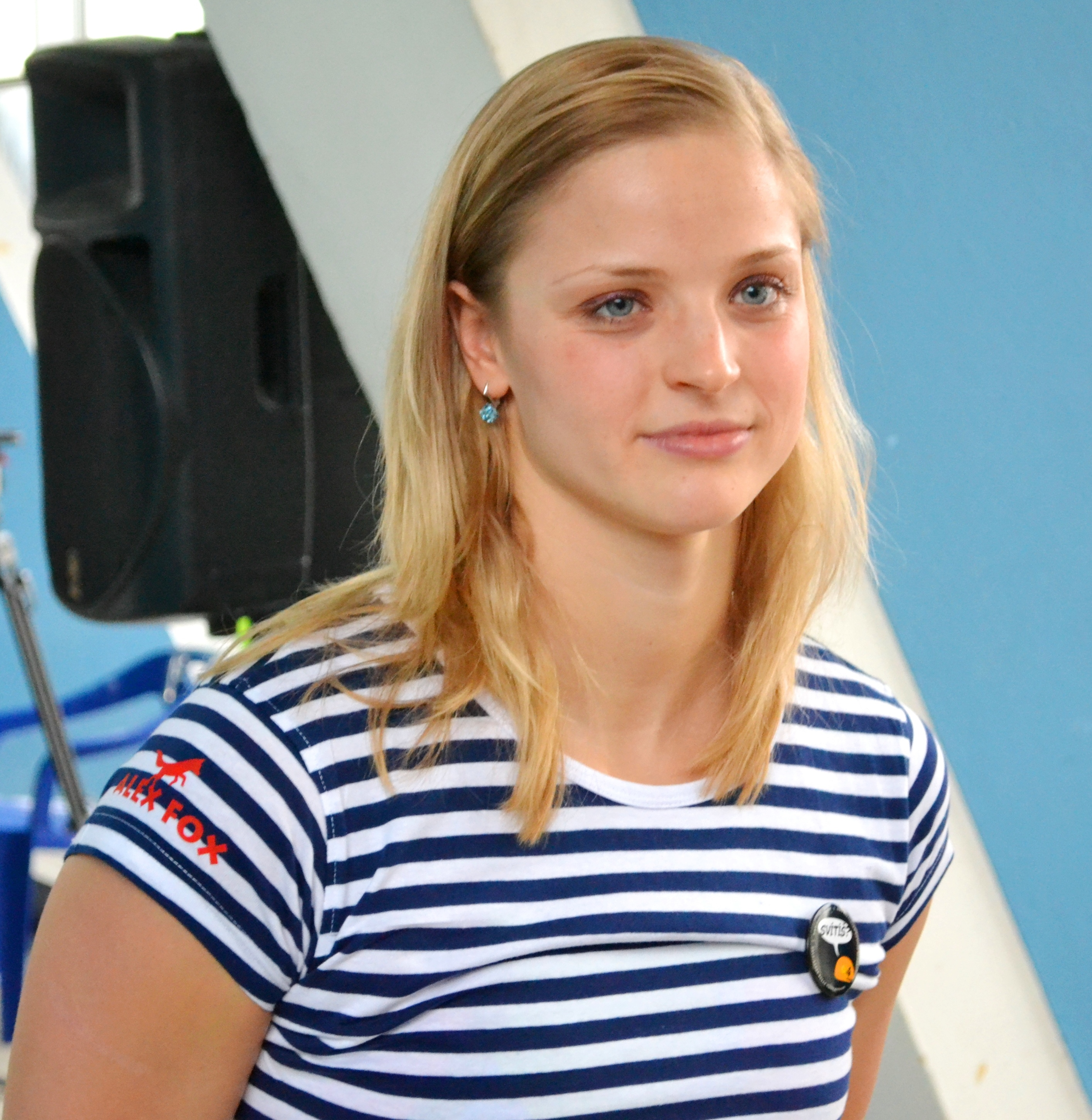 Simona Baumrtová, Czech swimmer